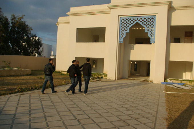 Tunisians are flocking to see the the ruins of the once opulent lifestyles led by their former leaders.